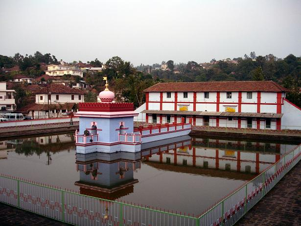 photograpghed by Pratheepps